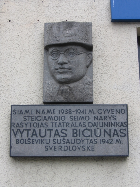 Vytautas Biciunas Memorial Tablet, Kaunas, Lithuania